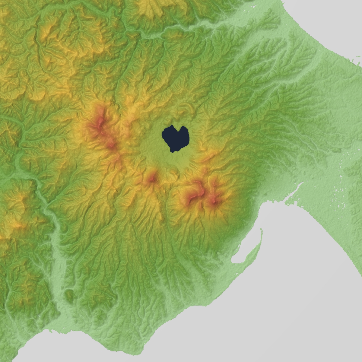 Osore volacno (Osore-zan) in Shimokita Peninsula, Aomori Prefecture, Honshu, Japan.